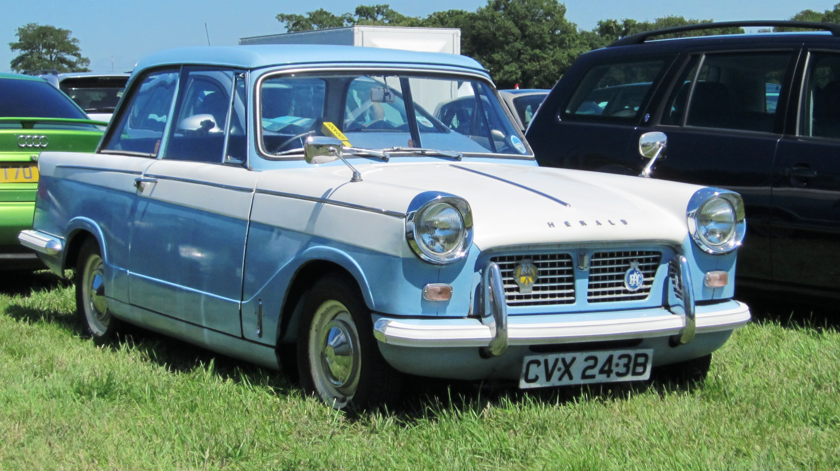 Triumph Herald 1200 in Essex